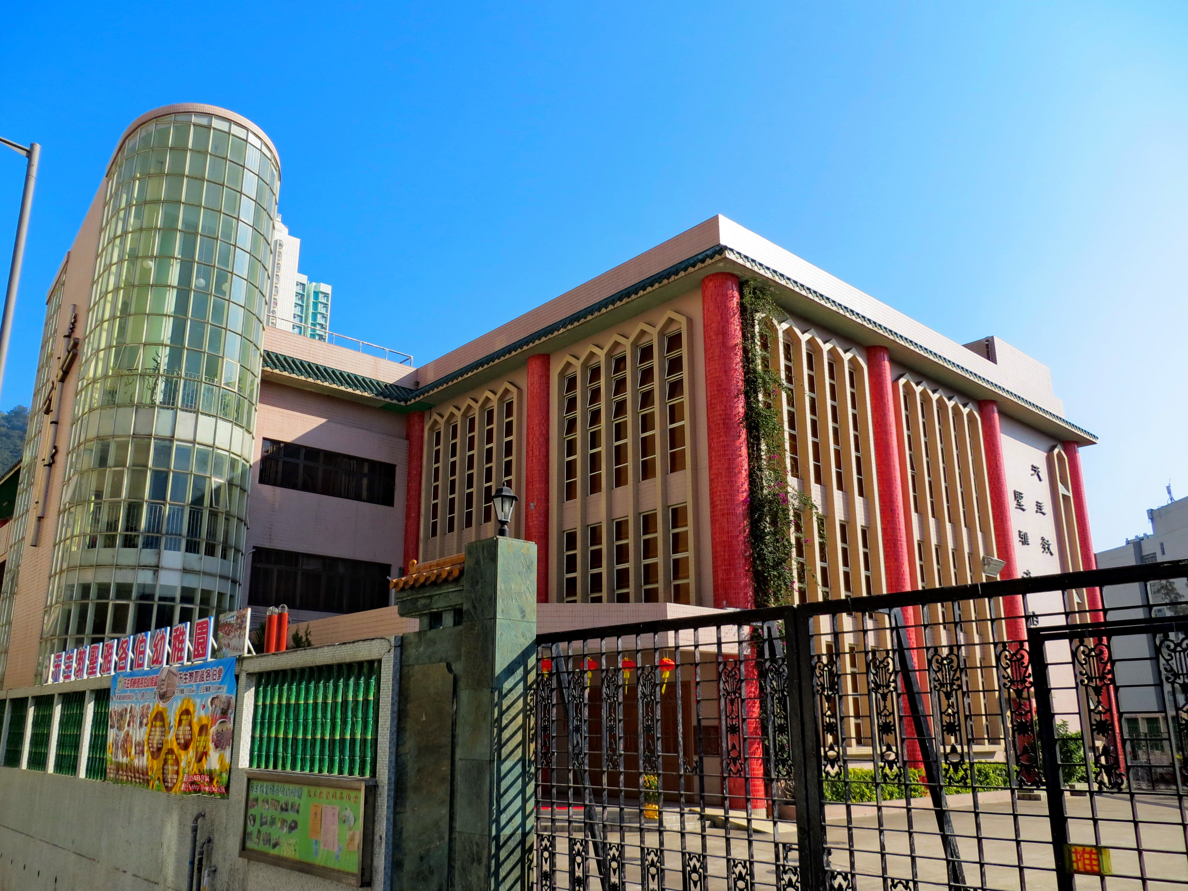 St. James' Church, 8 Ka Wing Street, Yau Tong, Kowloon, Hong Kong.